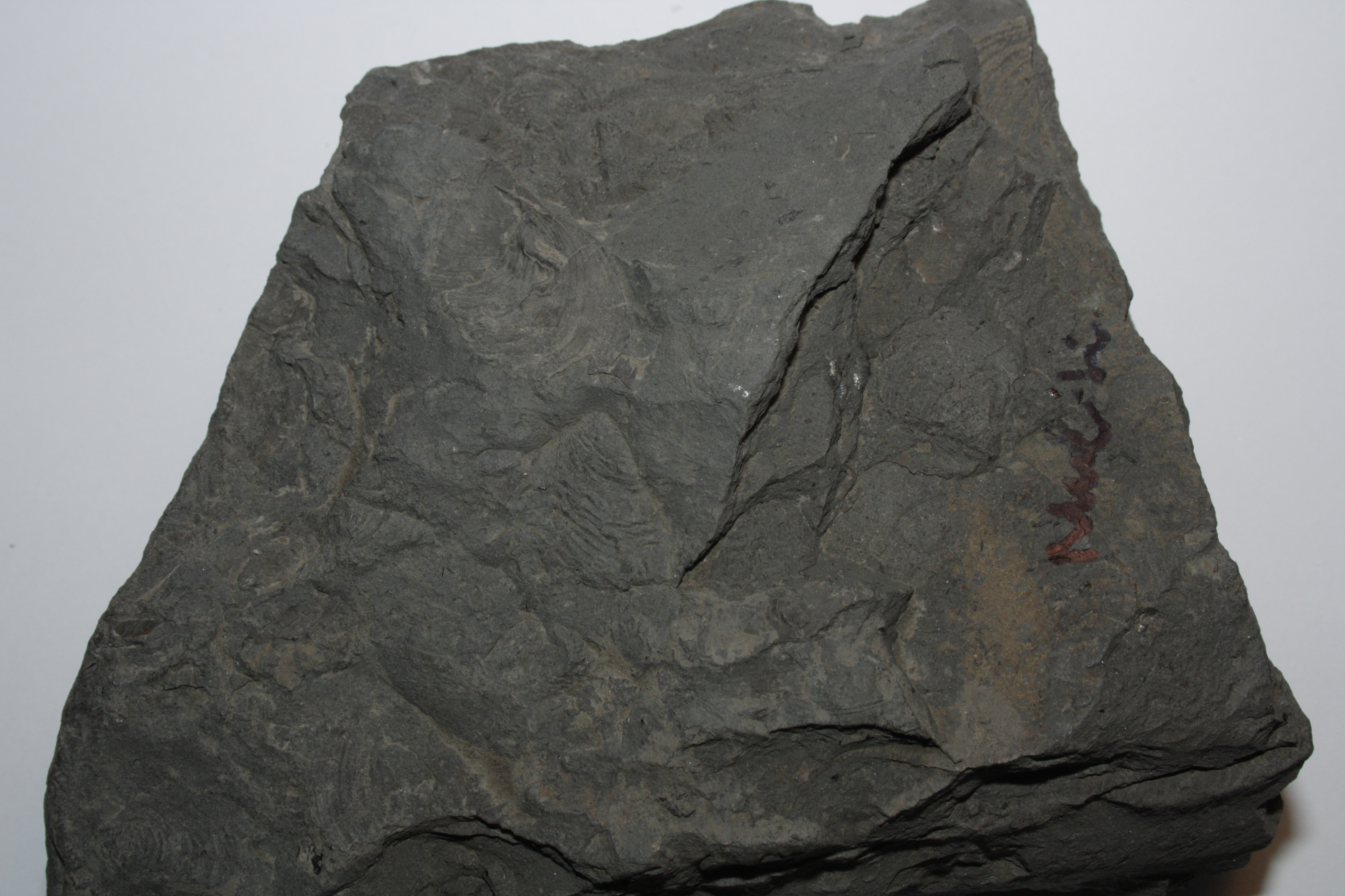 Specimen of Jurassic black shale (presumably the Toarcian “Posidonienschiefer”) with casts and moulds of posidoniid bivalves. Holzmaden, Swabian Jura (Swabian Alb), Baden-Württemberg, Germany. Width of specimen is about 11 cm/4.4 in.